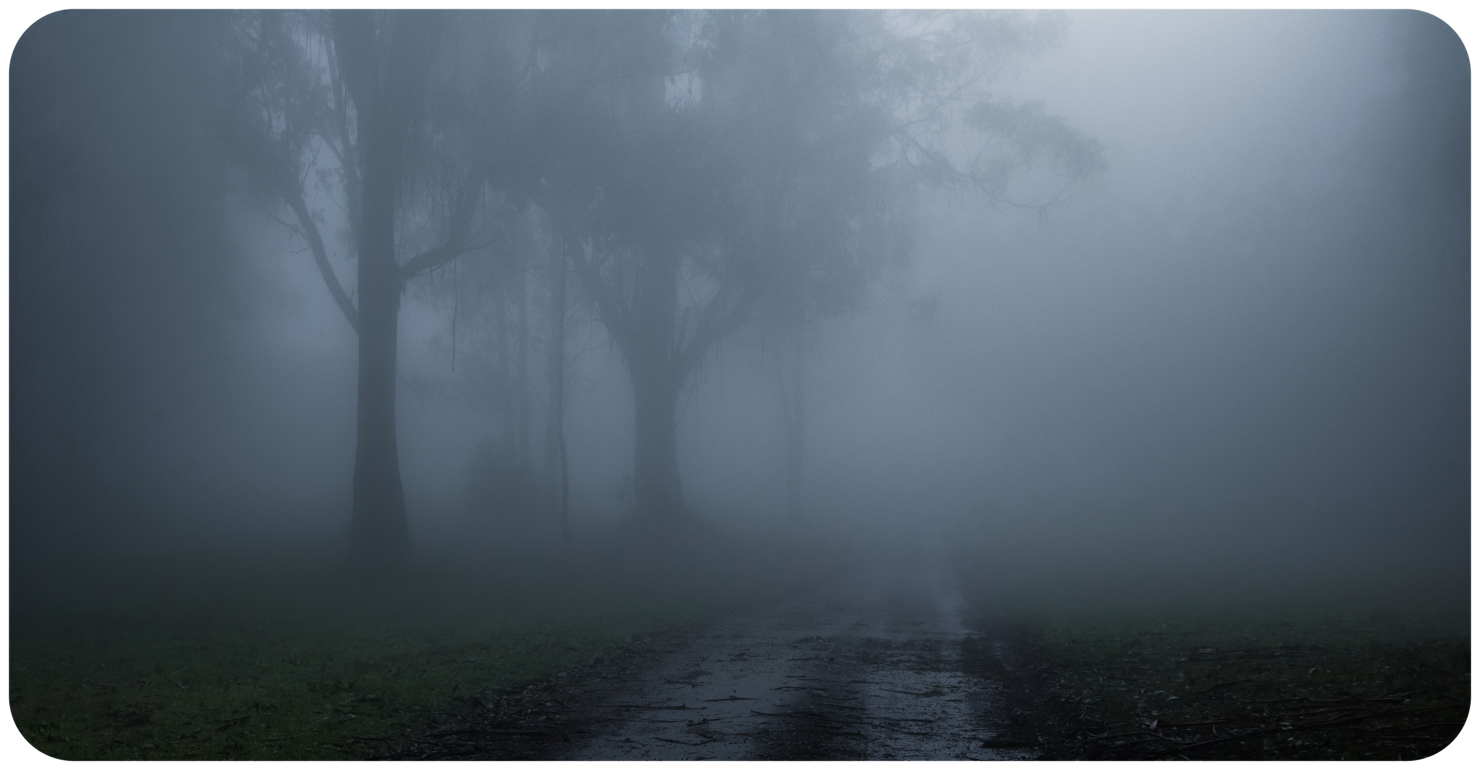 Mount Macedon, Victoria, Australia - 7th of July, 2016